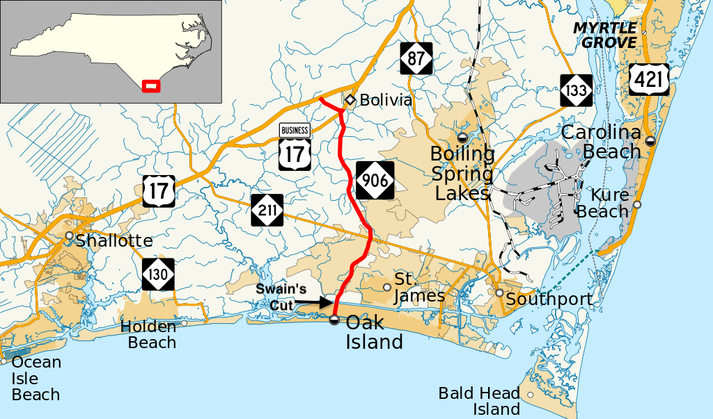 Annotated version of File:NC 906 map.svg showing location of Swain's Cut